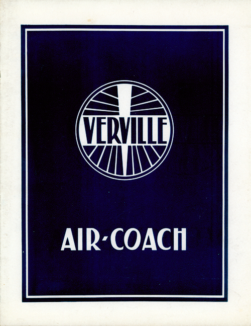 Scan of front cover of Verville Air Coach promo packet.